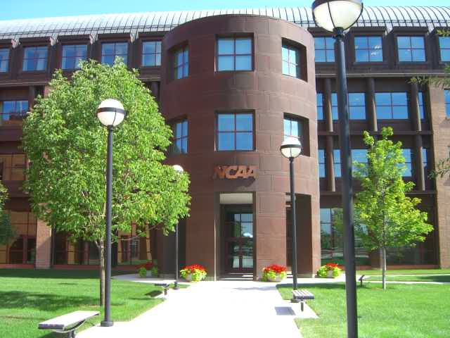 Current NCAA headquarters office in Indianapolis, Indiana